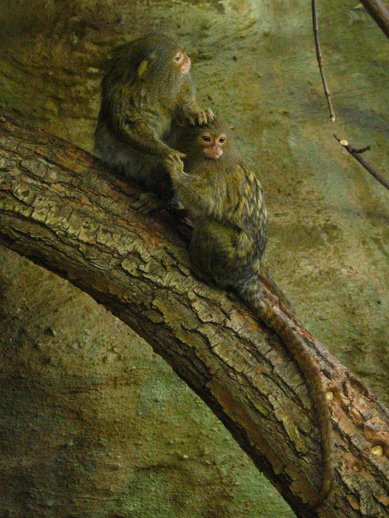 Pygmy Marmoset, ZOO Dvůr Králové, Czech Republic